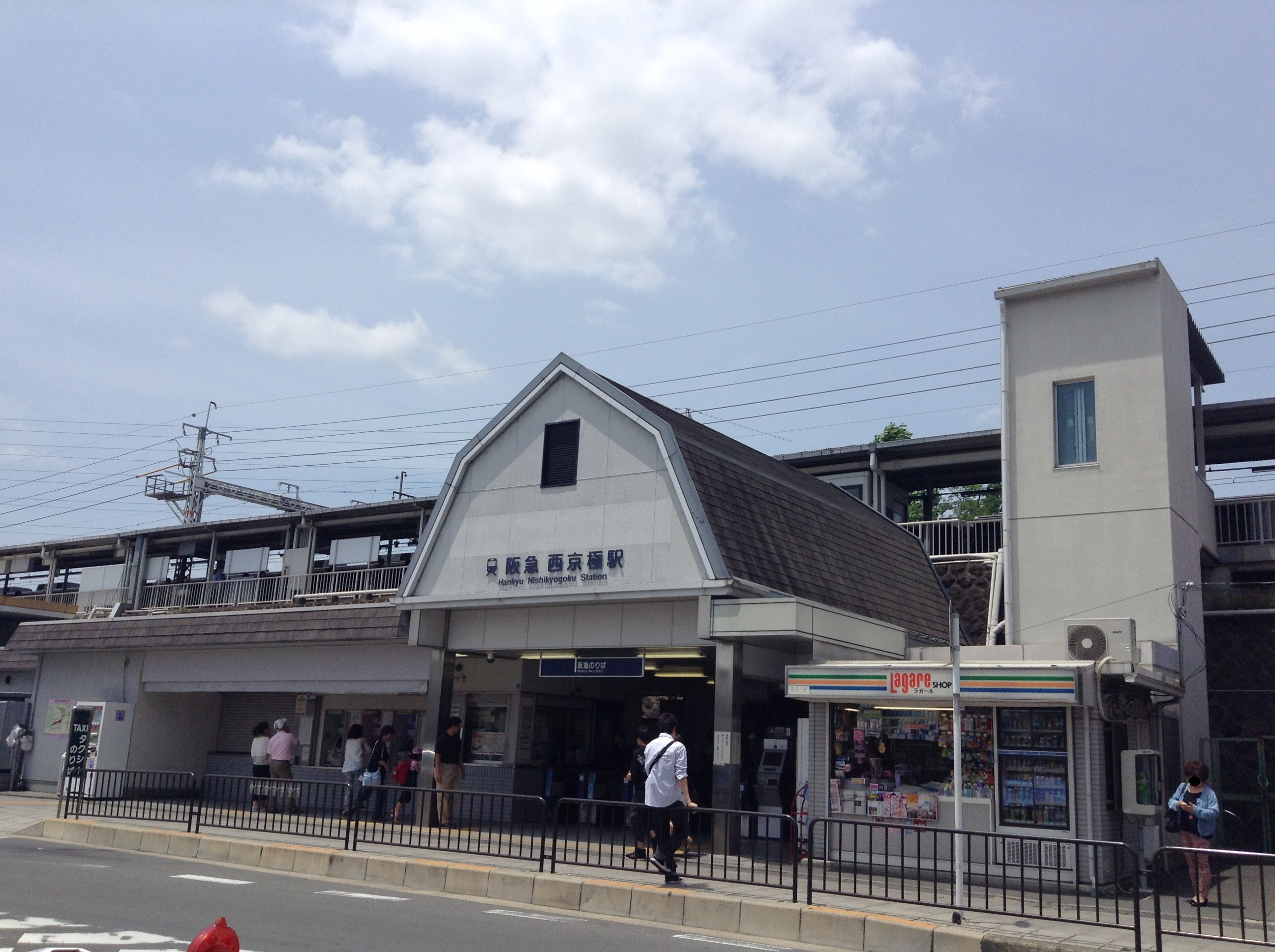 Hankyu Kyoto Main Line Nishikyogoku station